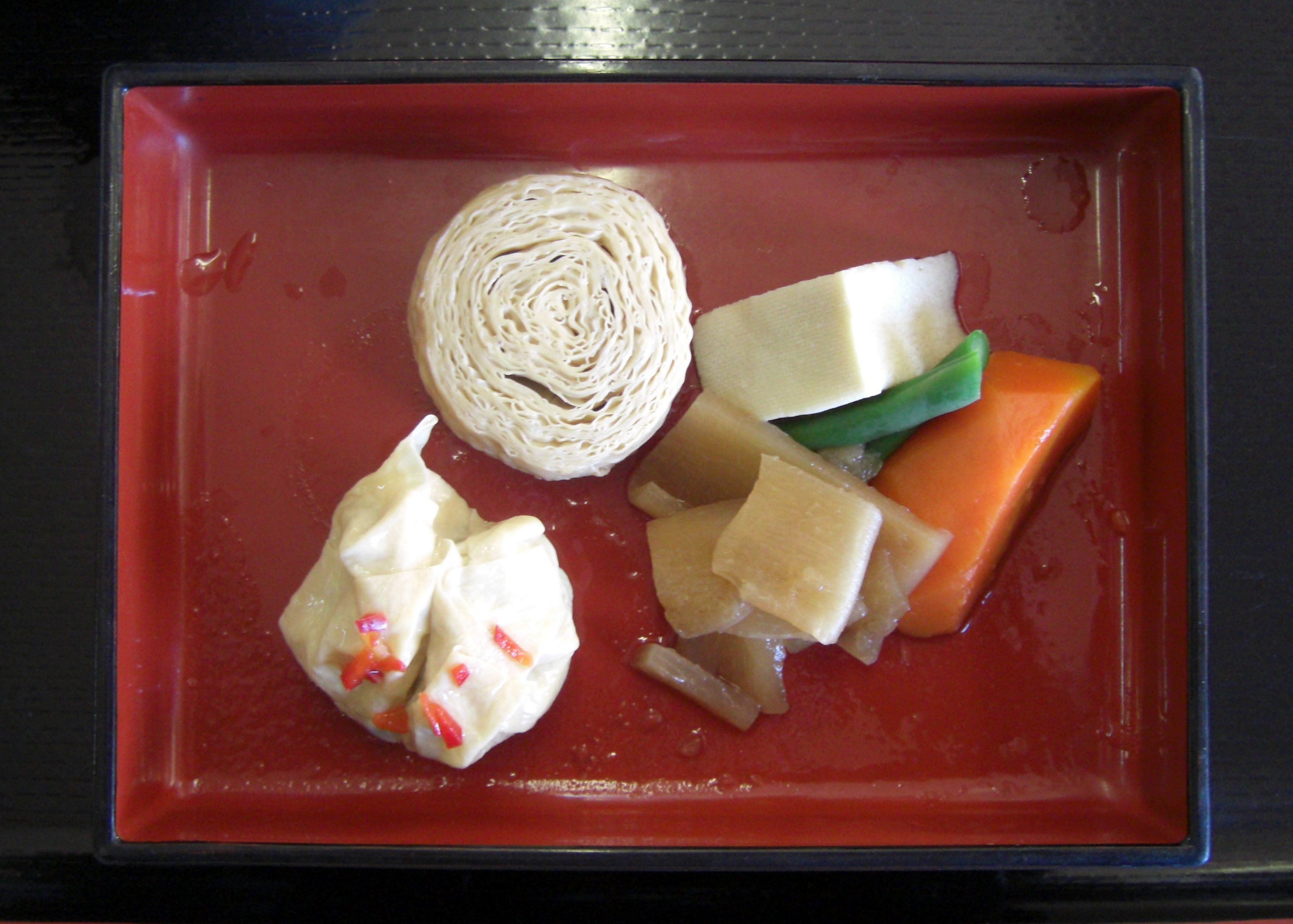 An example of "Yuba" food